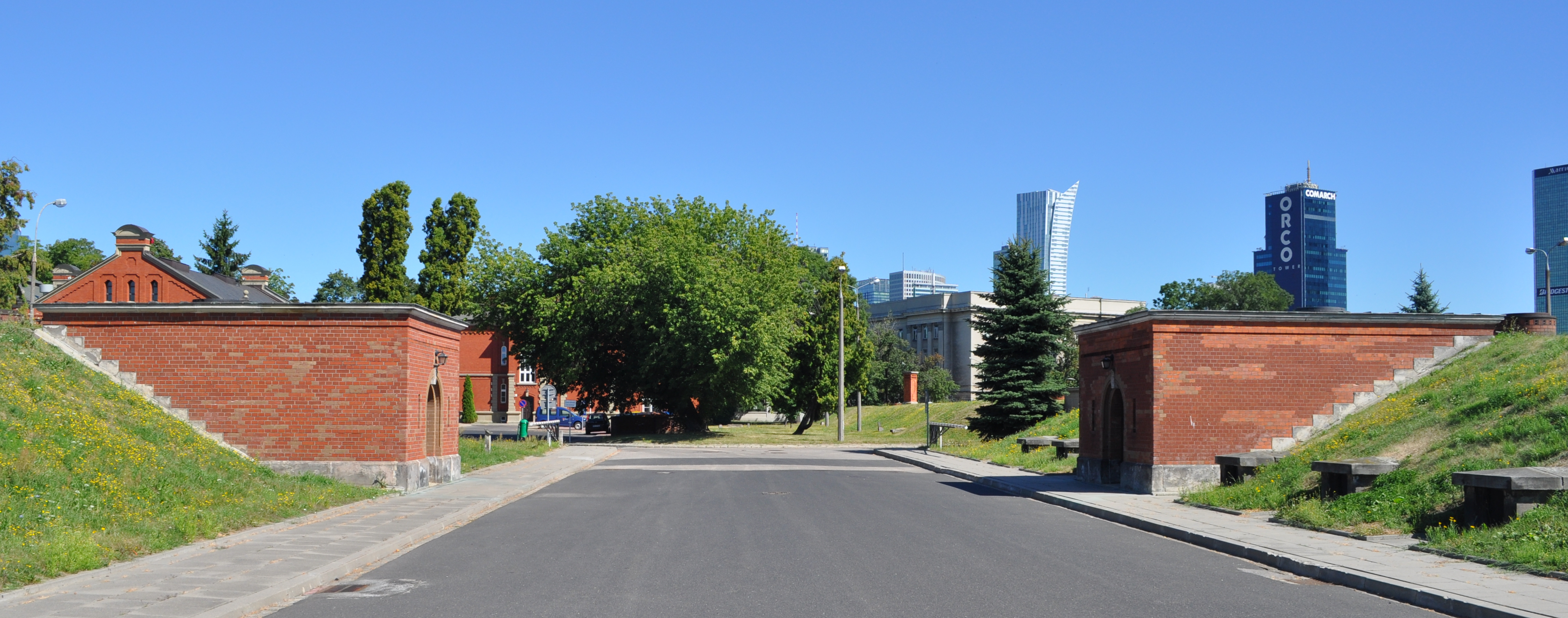 Warsaw Water Filters